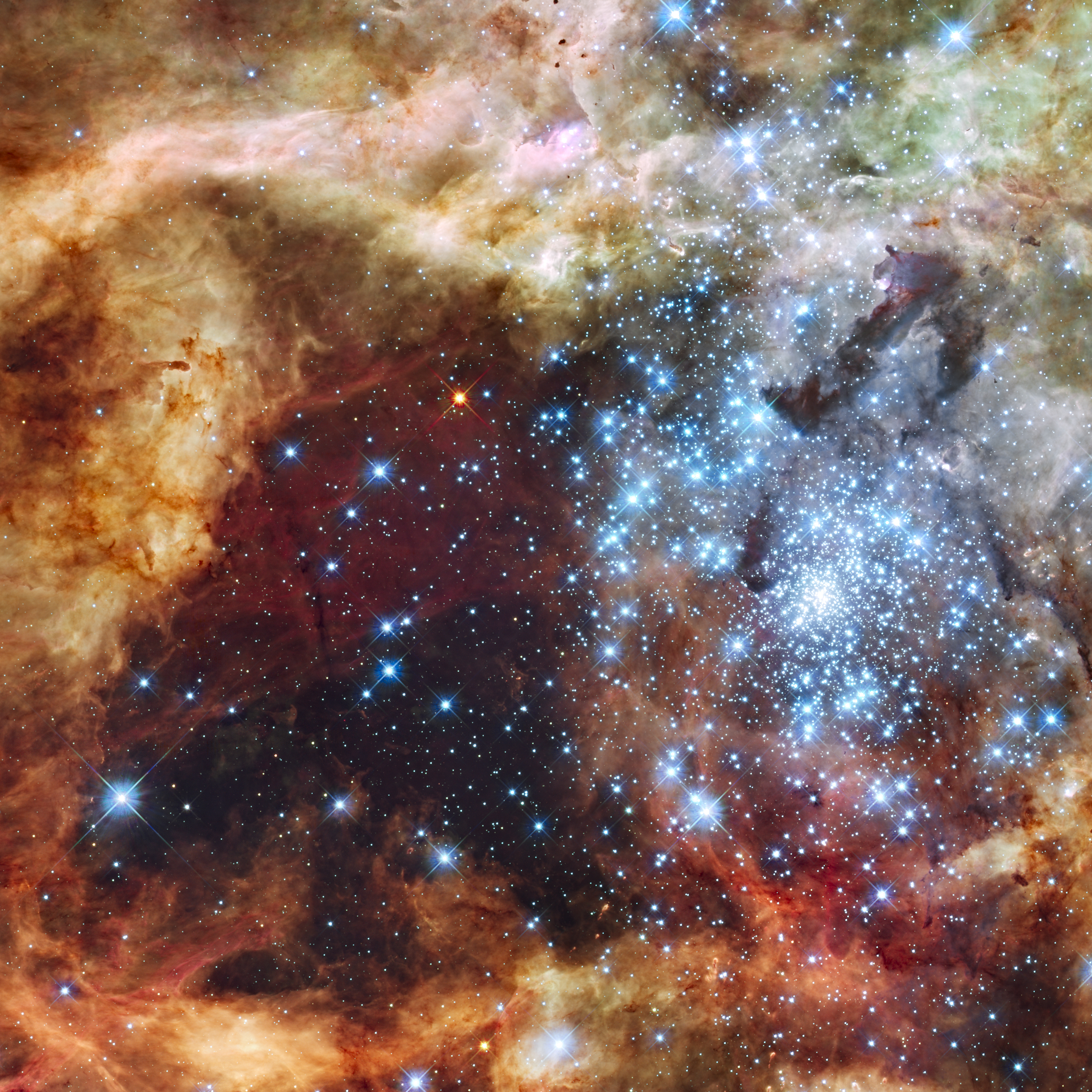 This is a view of the largest stellar nursery in our local galactic neighborhood. The massive, young stellar grouping, called R136, is only a few million years old and resides in the 30 Doradus Nebula, a turbulent star-birth region in the Large Magellanic Cloud (LMC), a satellite galaxy of our Milky Way. There is no known star-forming region in our galaxy as large or as prolific as 30 Doradus. Many of the diamond-like icy blue stars are among the most massive stars known. Several of them are over 100 times more massive than our Sun. These hefty stars are destined to pop off, like a string of firecrackers, as supernovas in a few million years. This image, taken in ultraviolet, visible, and red light by Hubble's Wide Field Camera 3, spans about 100 light-years. The nebula is close enough to Earth that Hubble can resolve individual stars, giving astronomers important information about the birth and evolution of stars in the universe. The Hubble observations were taken October 20-27, 2009. The blue color is light from the hottest, most massive stars; the green from the glow of oxygen; and the red from fluorescing hydrogen.